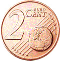 Common (or European) side of a €0.02 coin. It is copyrighted by the European Union.